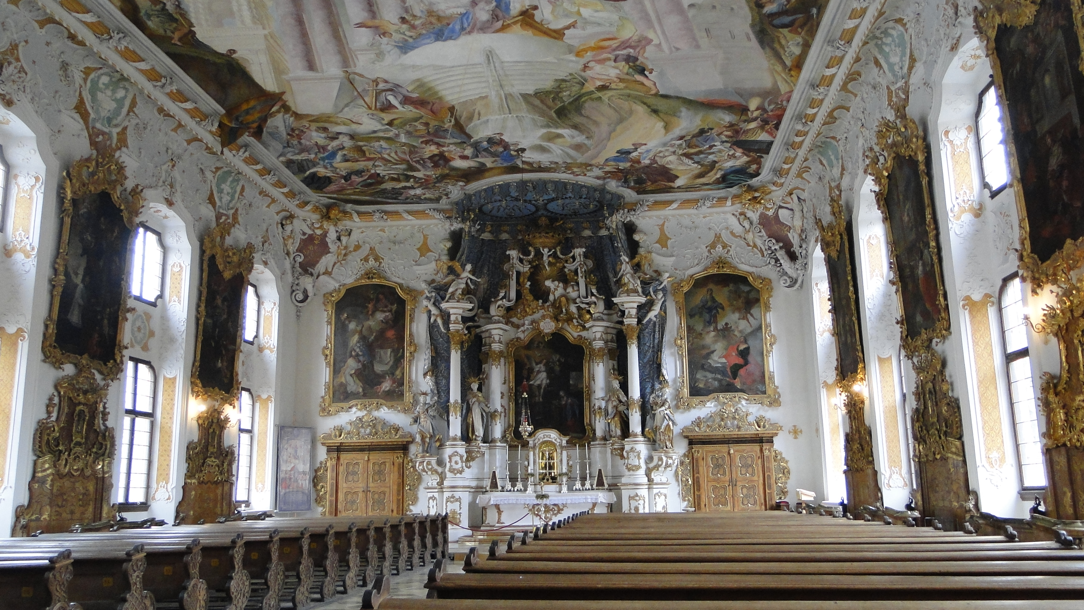 Interior of the church of Saint Mary of the Victory (Ingolstadt)